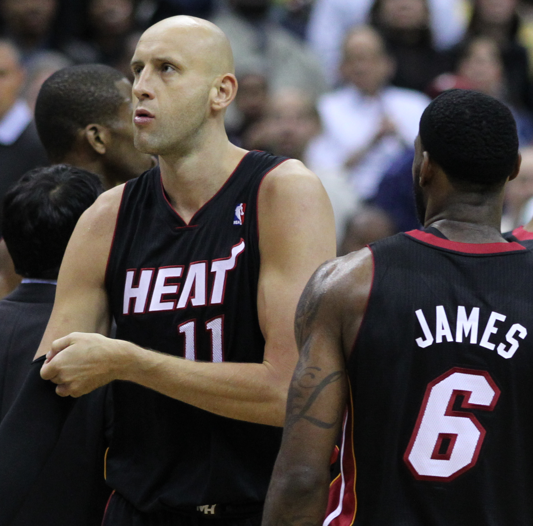 Wizards v/s Heat 03/30/11